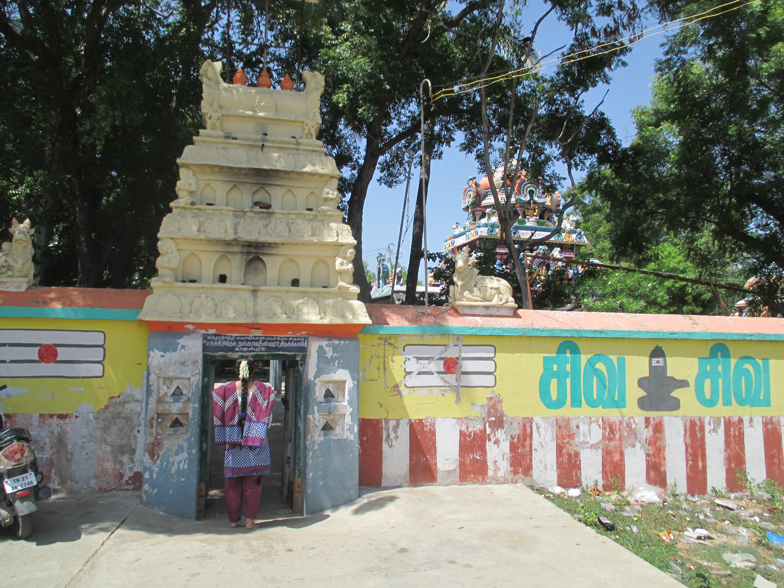 Anekadhangavadeswarar Temple